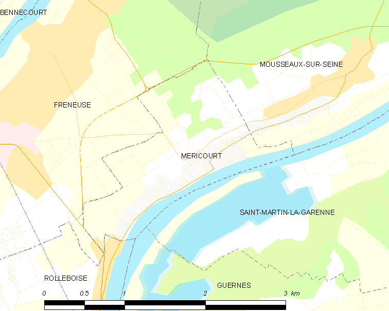 Map of French municipality Méricourt